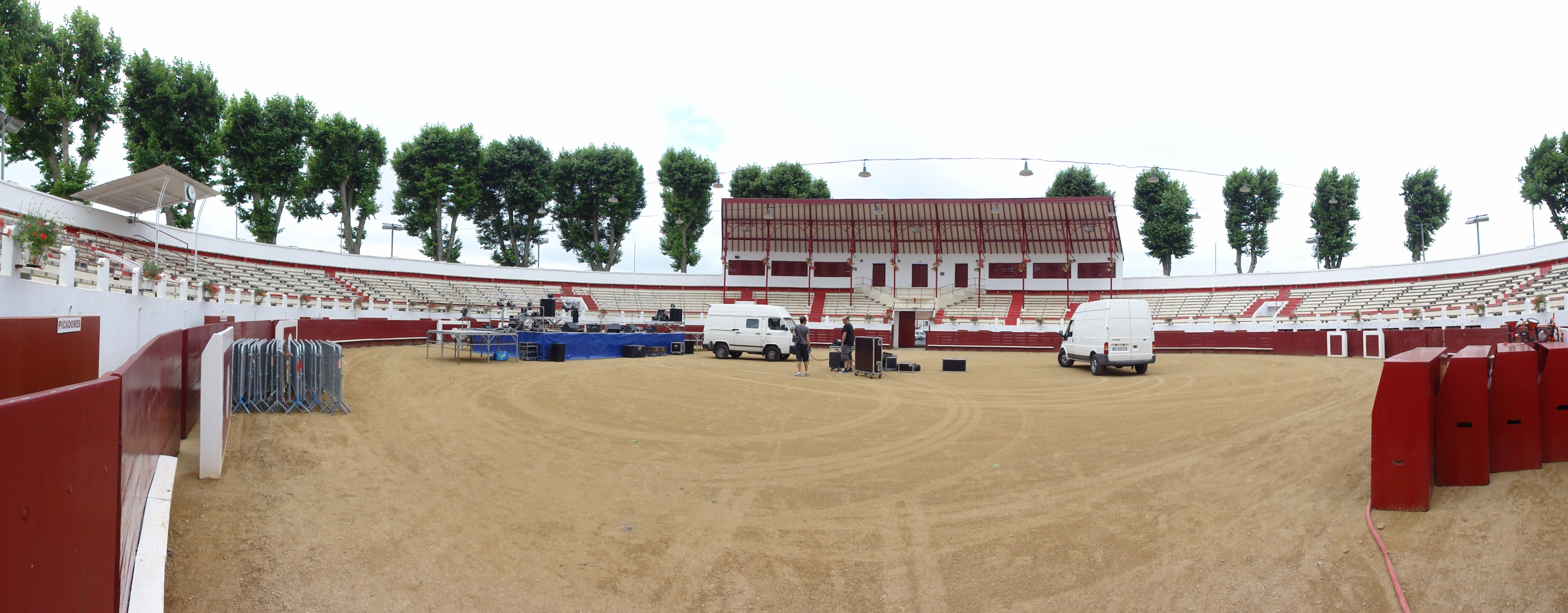 Soustons (Landes) arènes, intérieur, panorama par mouvement